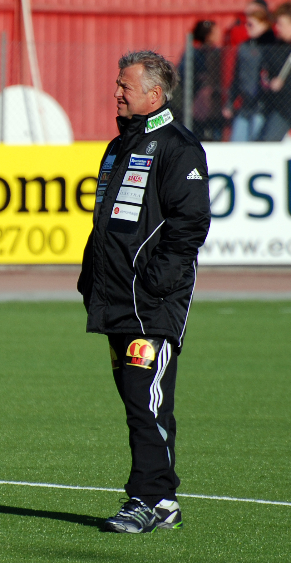 Arne Erlandsen, head coach of HamKam.